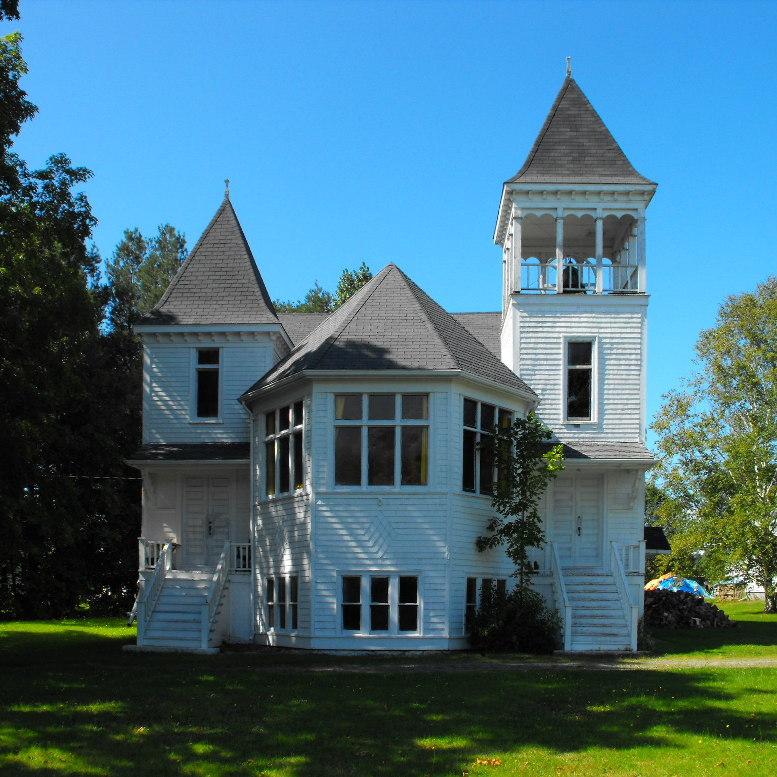 Wesley-Knox United Church of Canada, formerly the Methodist Presbyterian Church, in Woodville, Kings County, Nova Scotia (built 1921)